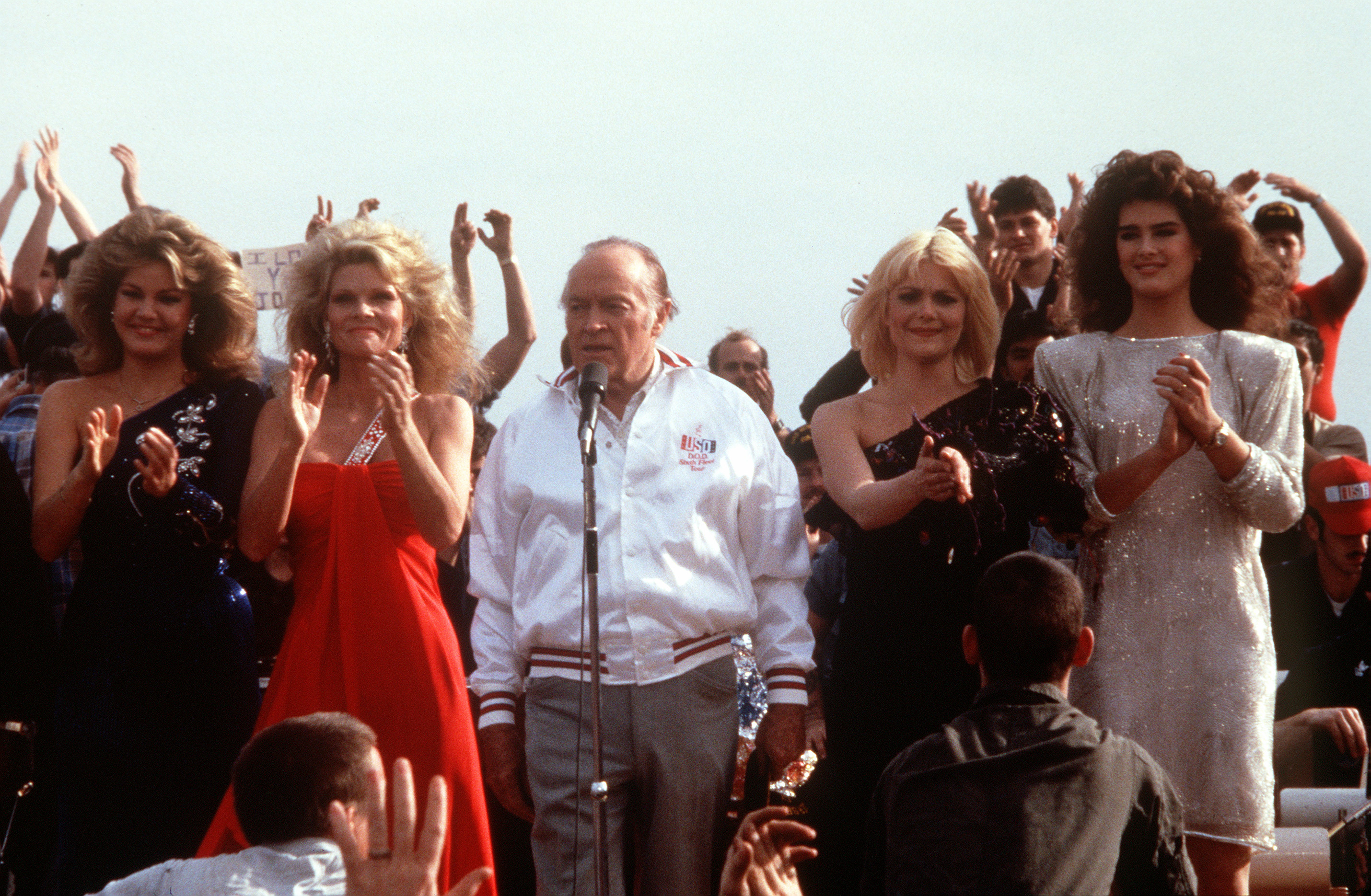 Entertainer Bob Hope performs for crewmen aboard the battleship USS NEW JERSEY (BB-62) with help from, left to right: Miss USA Julie Hayek, Cathy Lee Crosby, Ann Jillian and Brooke Shields, during a Christmas Eve USO show. The NEW JERSEY is operating off the coast of Beirut, Lebanon.